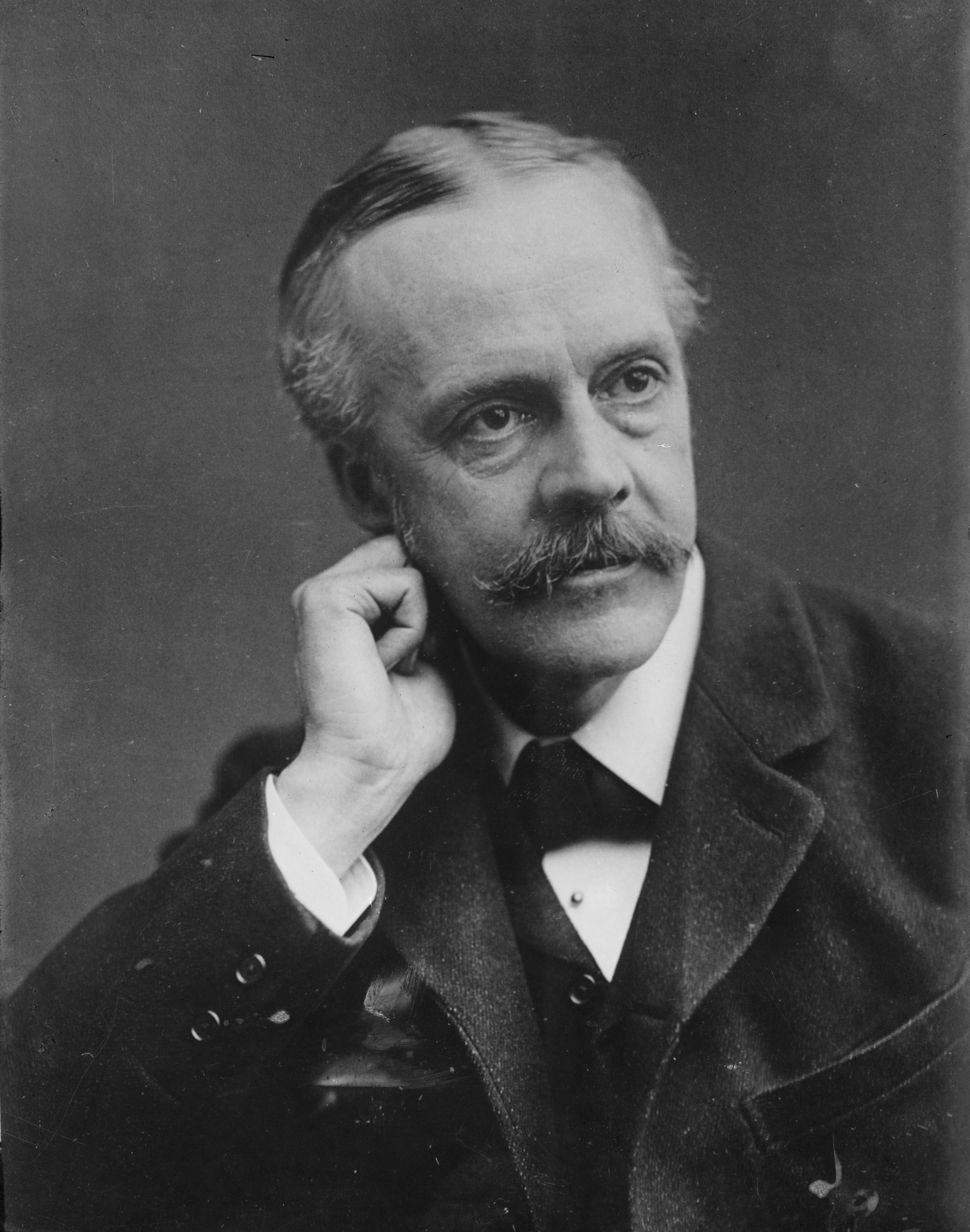 Title: A.J. Balfour Abstract/medium: 1 negative : glass ; 5 x 7 in. or smaller.